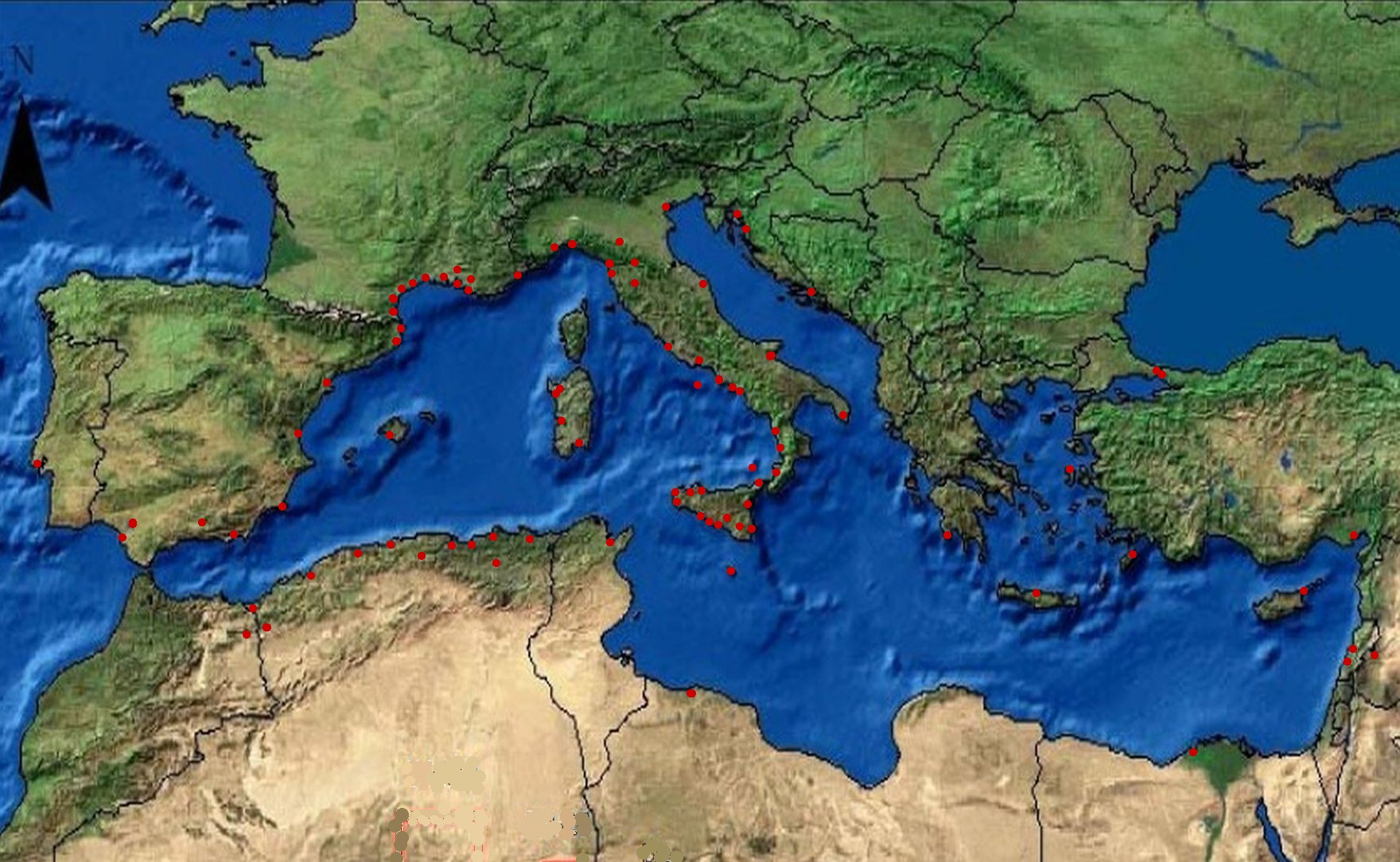 Consolates of Catalans in the Mediterranean